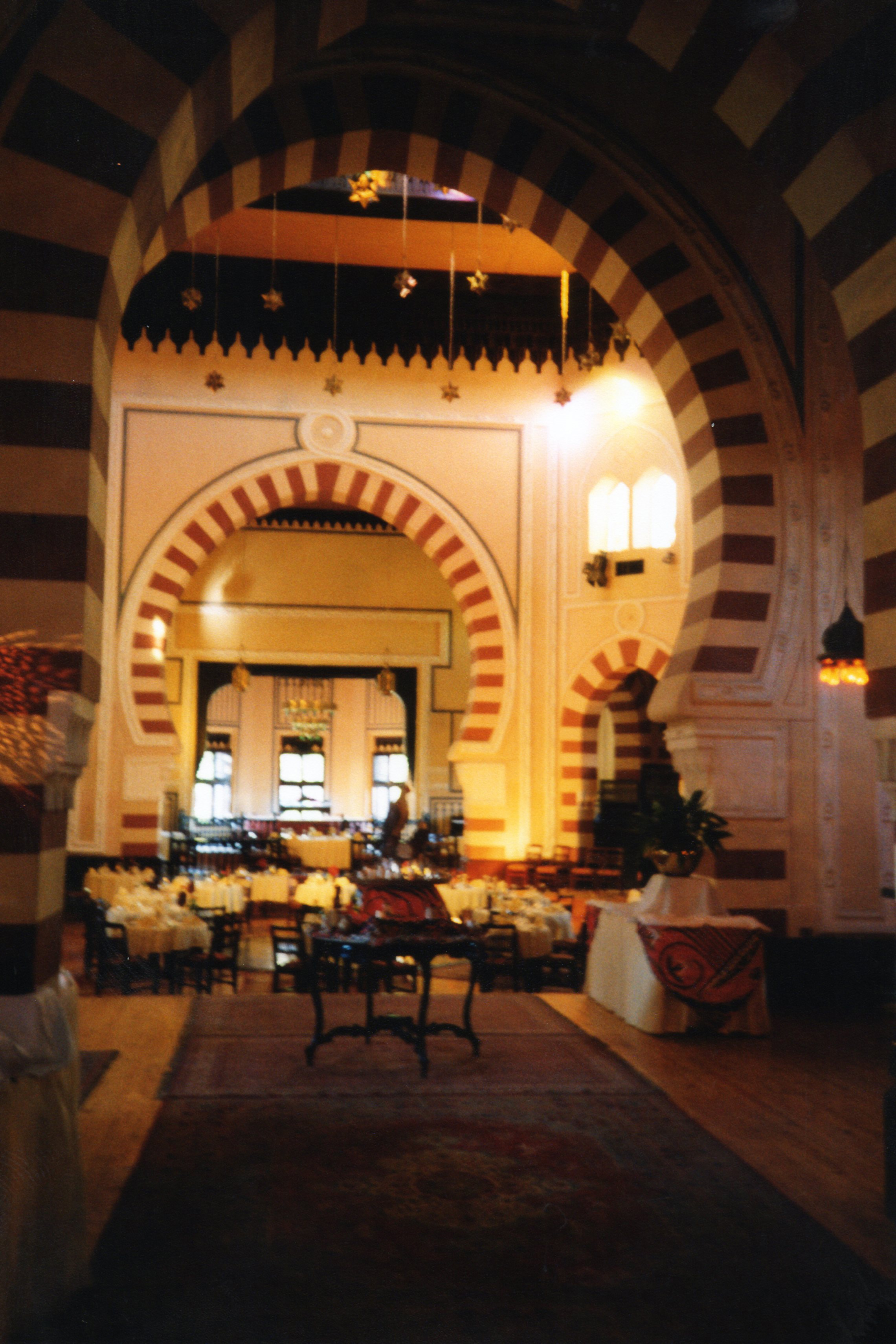 The dining room of the Old Cataract, a well-known hotel in Aswan, Egypt - indoor.